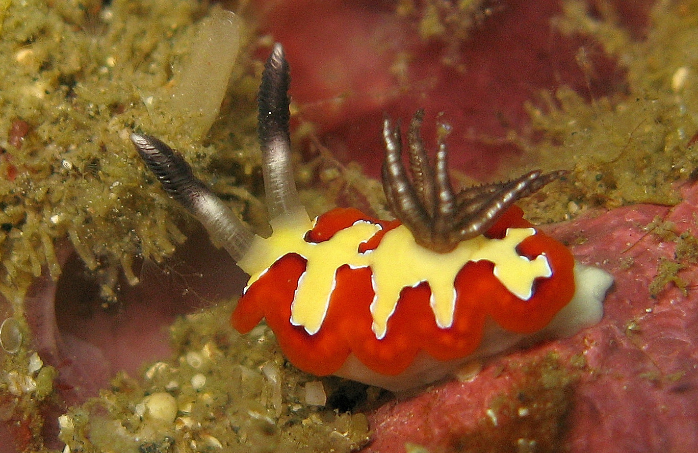 Goniobranchus fidelis (Kelaart, 1858) (synonym: Chromodoris fidelis) from Lembeh.